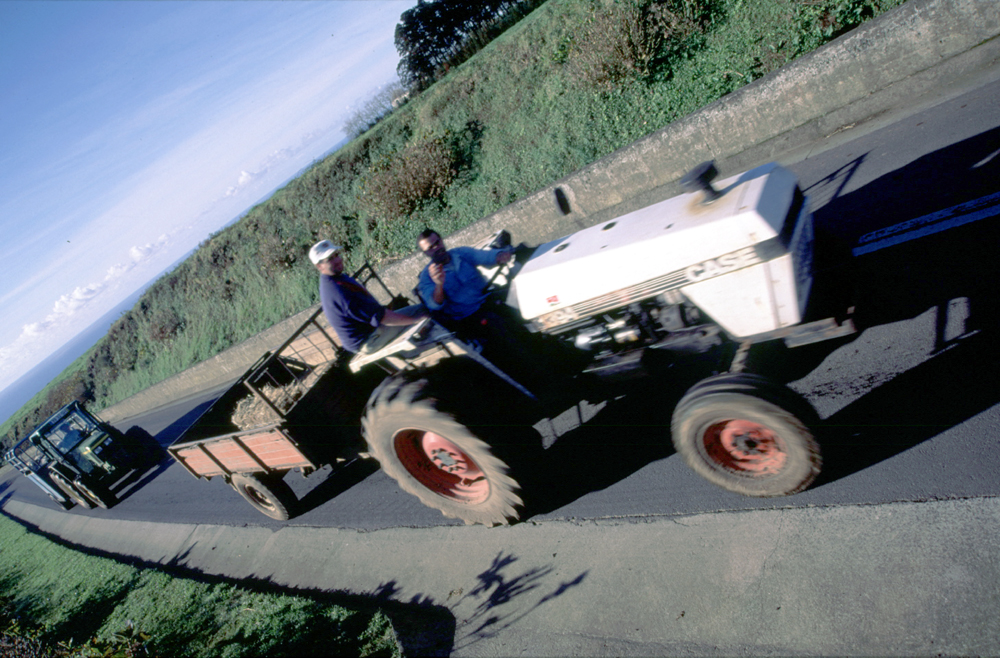 Sao Miguel island - The Azores